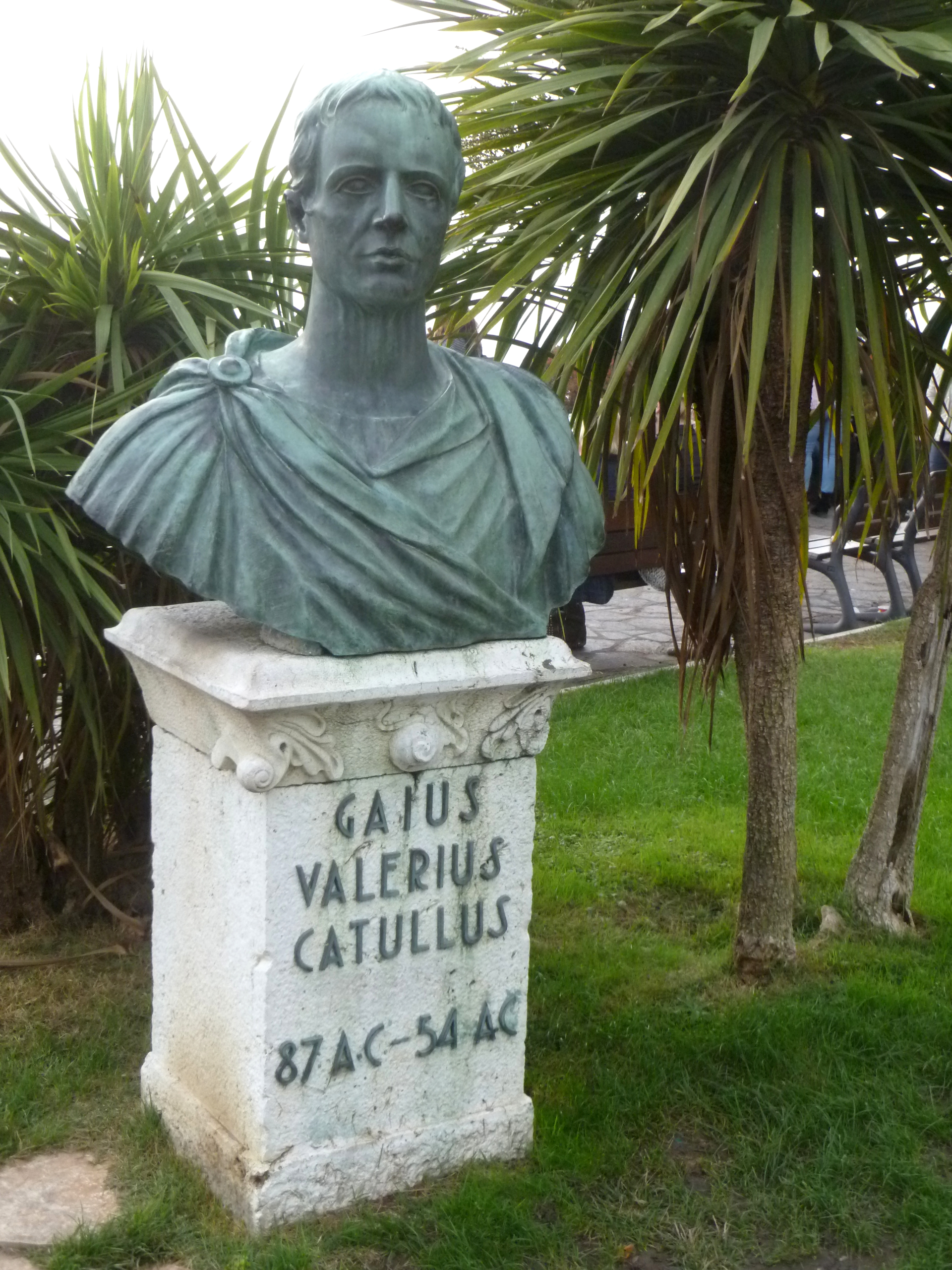 Modern bust of Catullus; Sirmione, Lake Garda, Italy